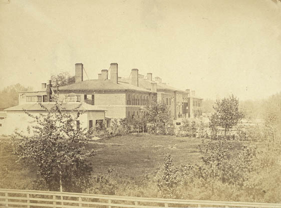 Parliament Buildings on Front Street. Toronto, Canada, which served at various times as the legislative buildings of Upper Canada, the Province of Canada and the Province of Ontario. See Parliament Buildings of Upper Canada.